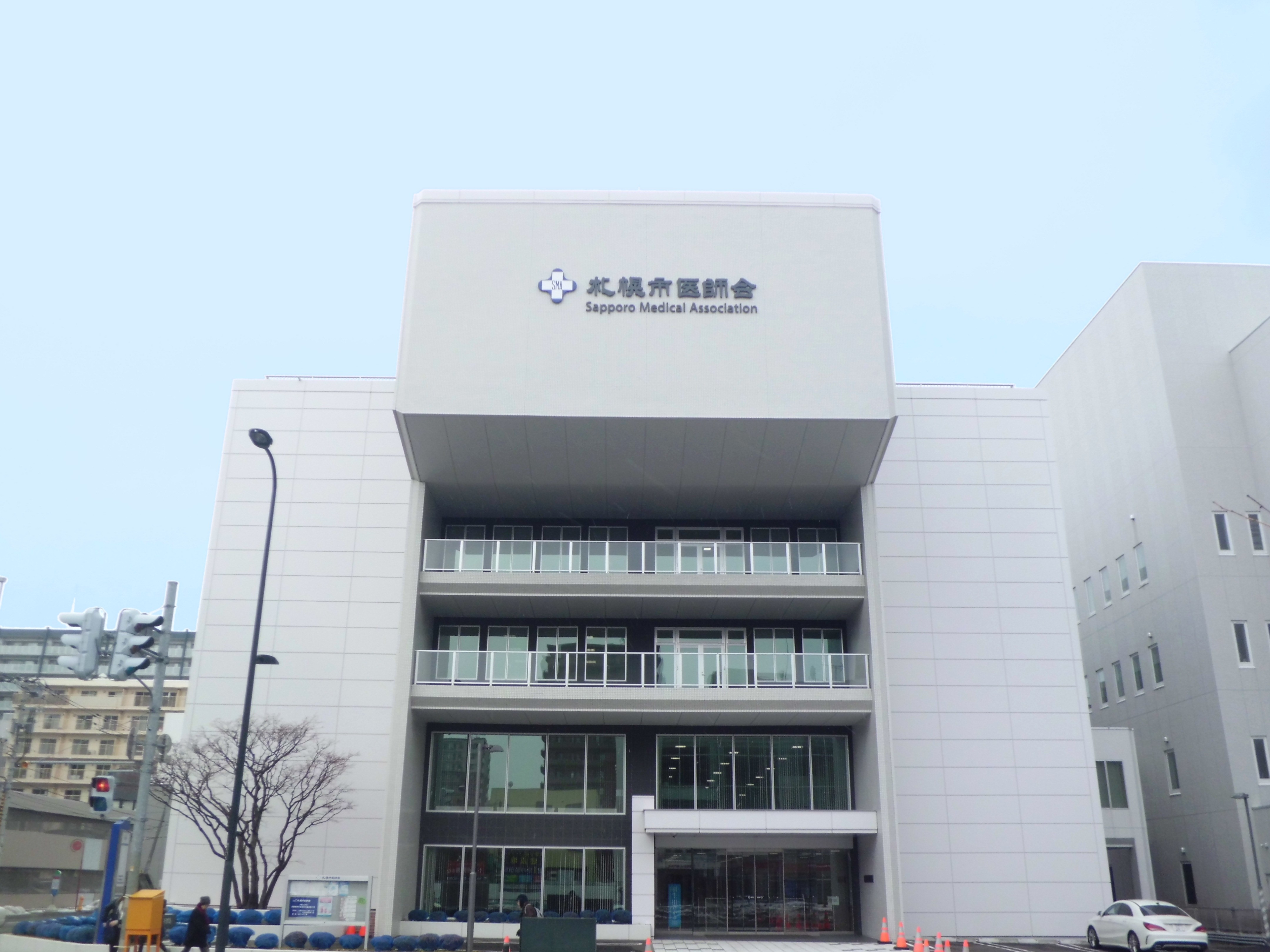 Sapporo Medical Association Hall